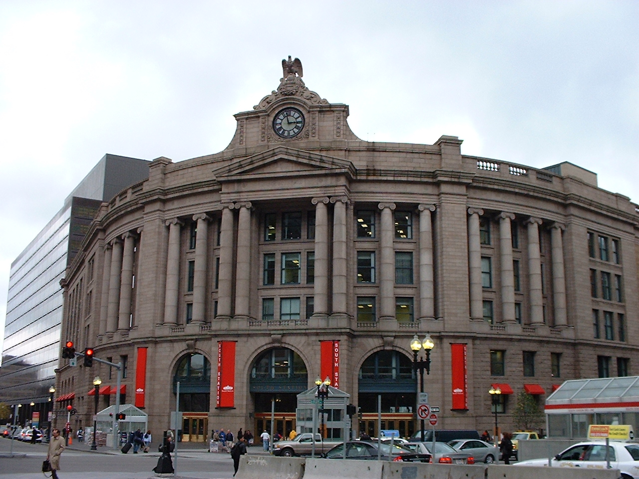 South Station, Boston.